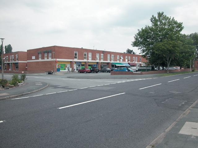 Westminster Park. Parade of shops serving a large residential area to the south of Chester.